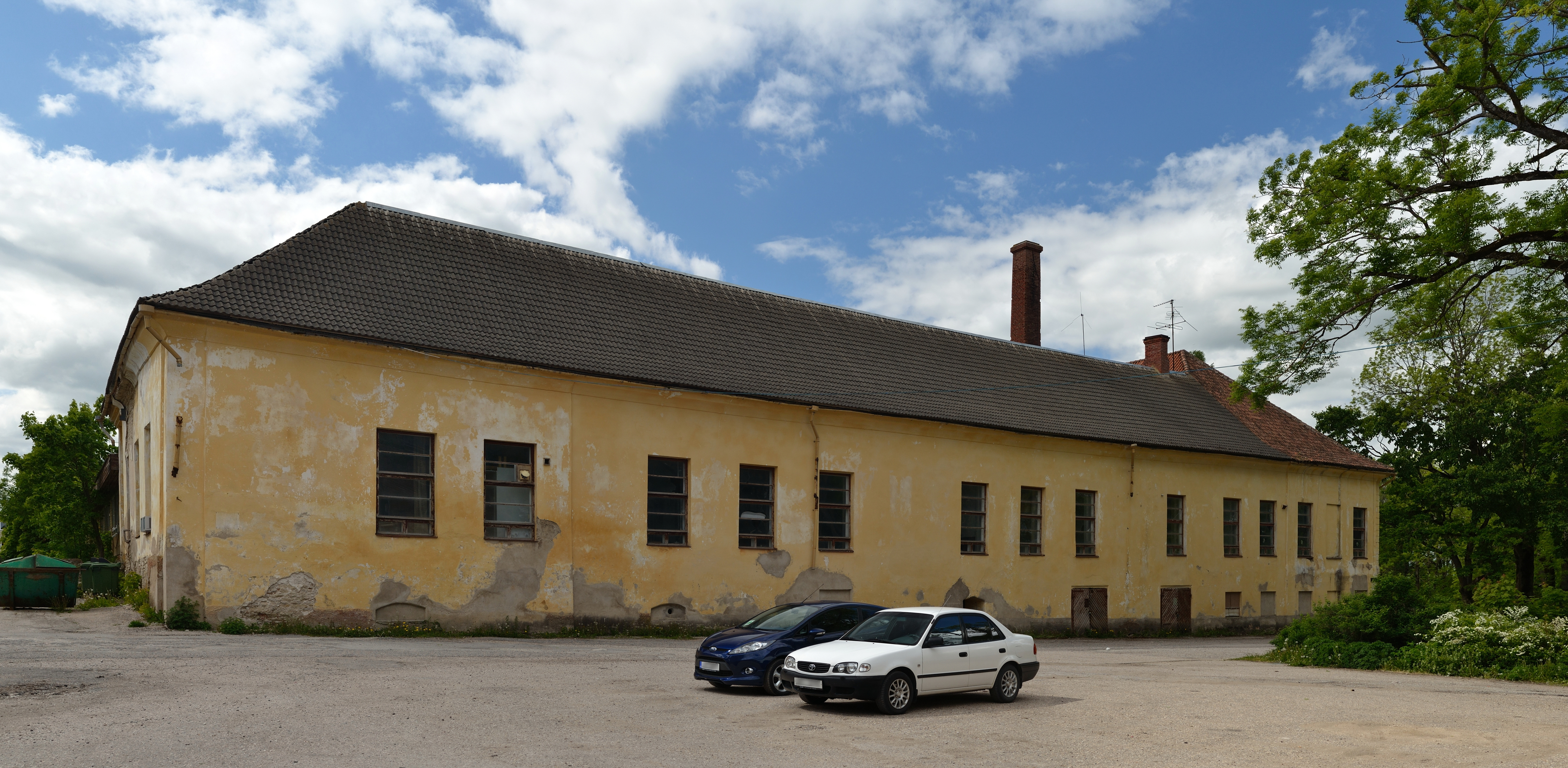 Vinni manor main building